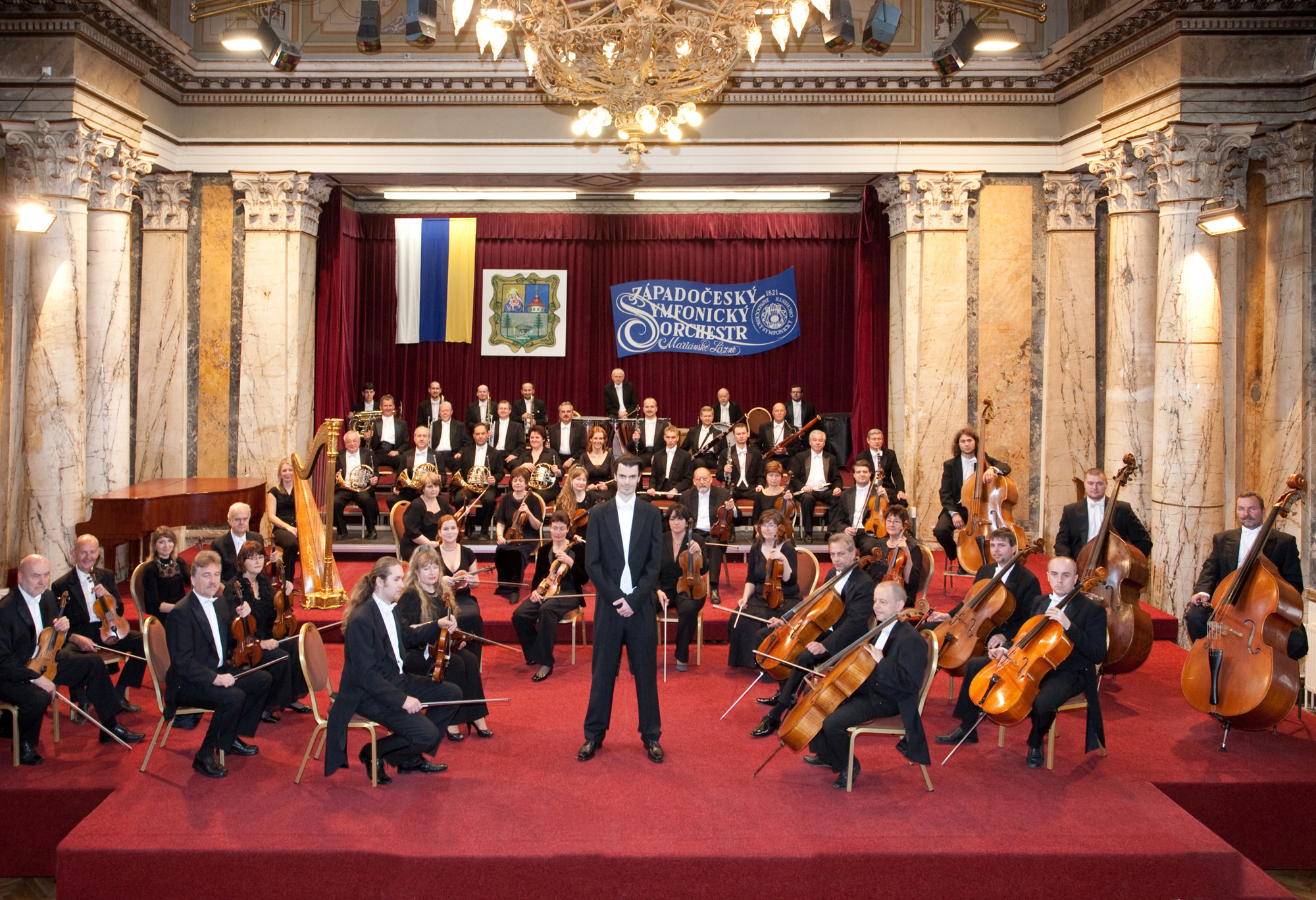 West bohemian symphony orchestra